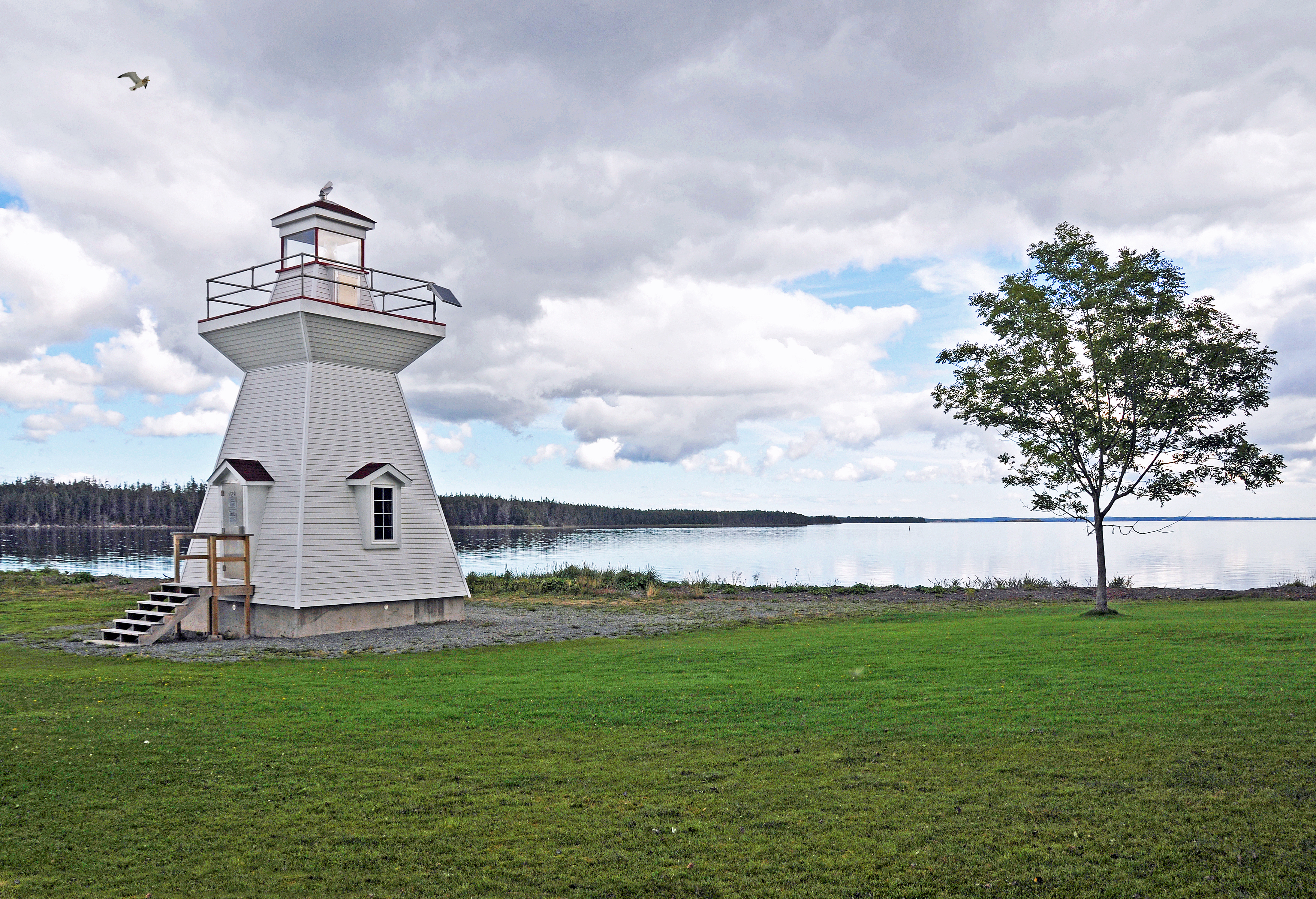 Grandique Point Lighthouse This lighthouse is located in a Provincial Park. Location: On beach near wharf at Grandique Point (Lennox Passage) Began and Lit: 1884 Tower Height: 9.75 meters (32ft) Light Height: 8.84 meters (29ft) above water level Scenic Drive: Fleur-de-lis Trail